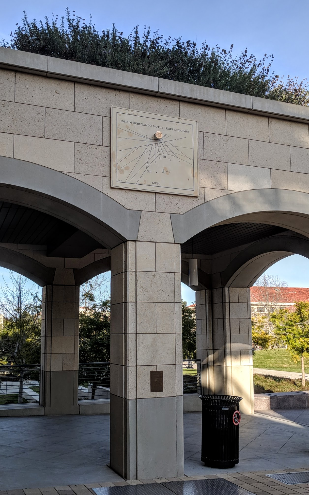 Mark and Ron Bracewell made this sundial, which was originally installed on the Stanford's Terman Engineering Building, but moved to the Huang building after Terman was demolished.